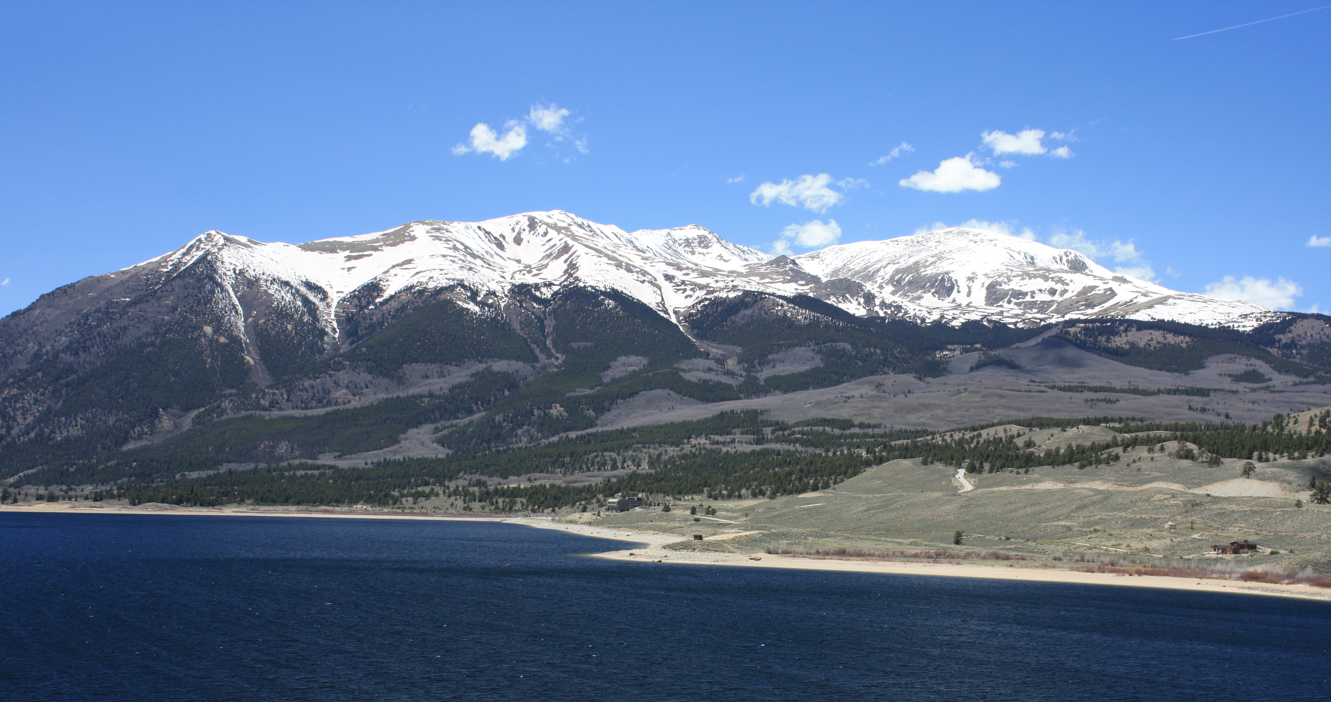 Mount Elbert, taken from Twin Lakes. IMG_2285